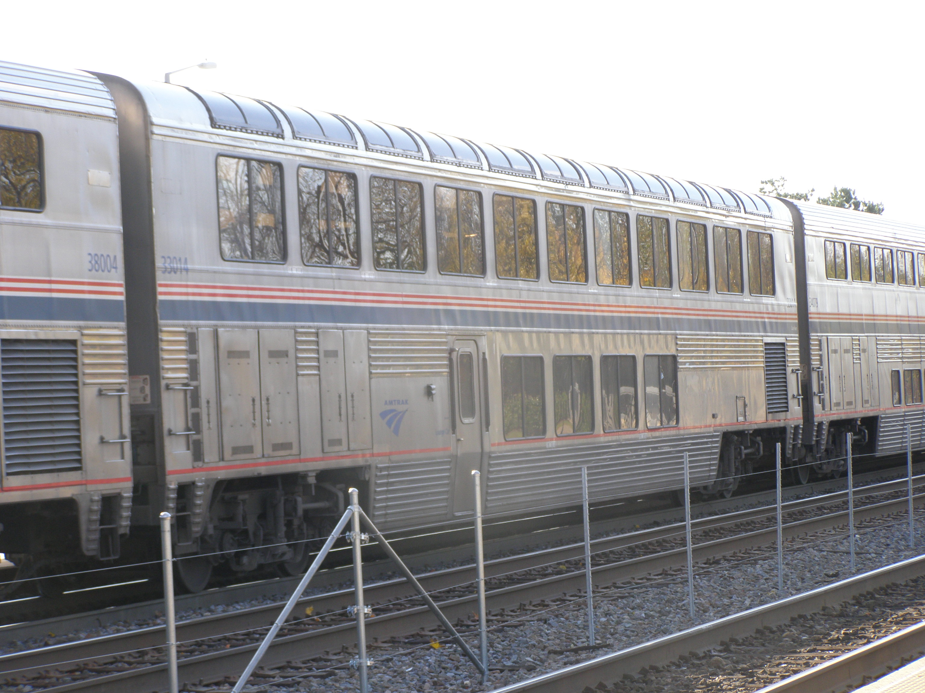 Cafe Car on the Southwest Chief at the Naperville Amtrak station, Illinois.